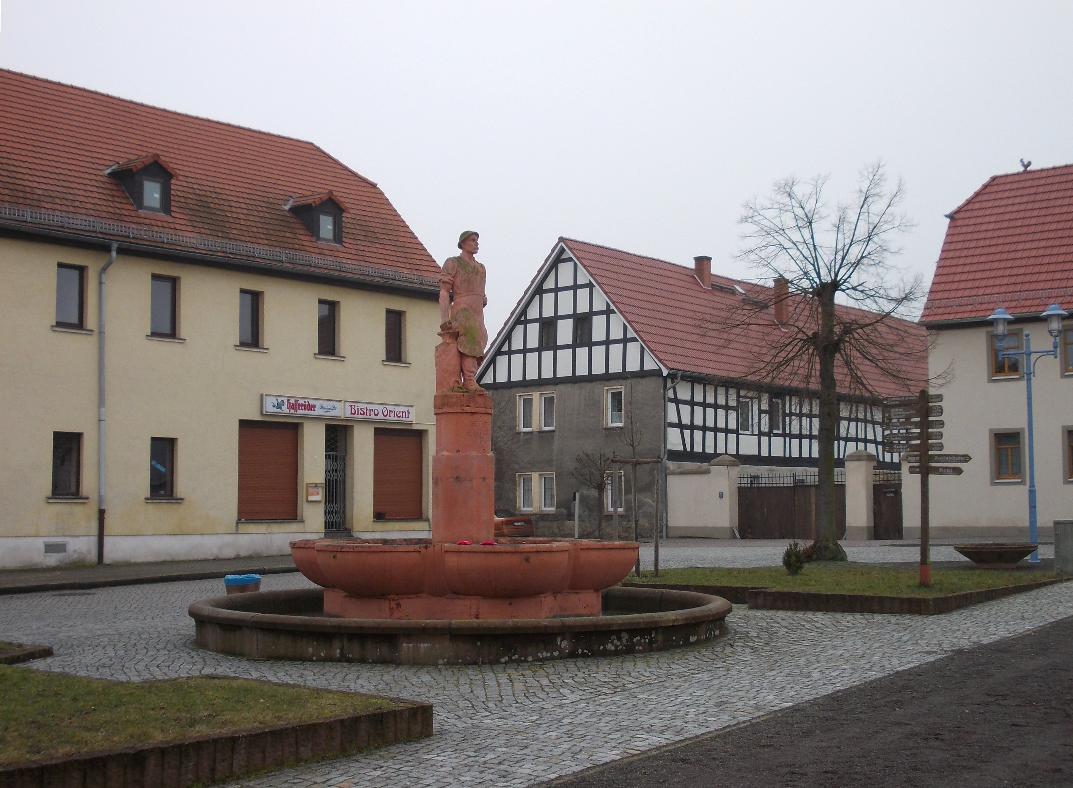 Halbfass Fountain at the market square in Regis (Regis-Breitingen, Leipzig district, Saxony)